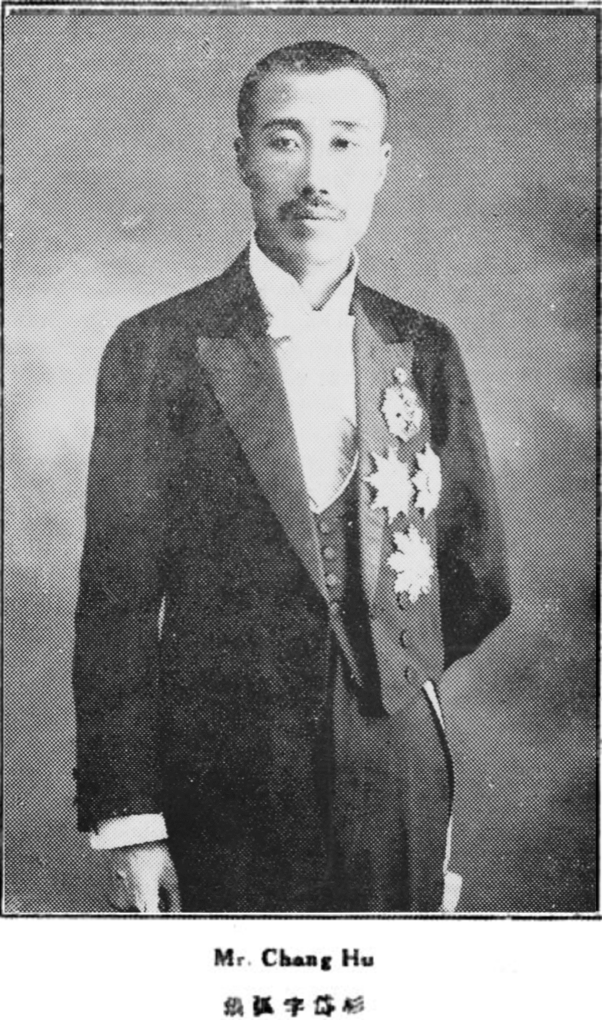 Zhang Hu (Chang Hu), Daishan (1875 - 1937)